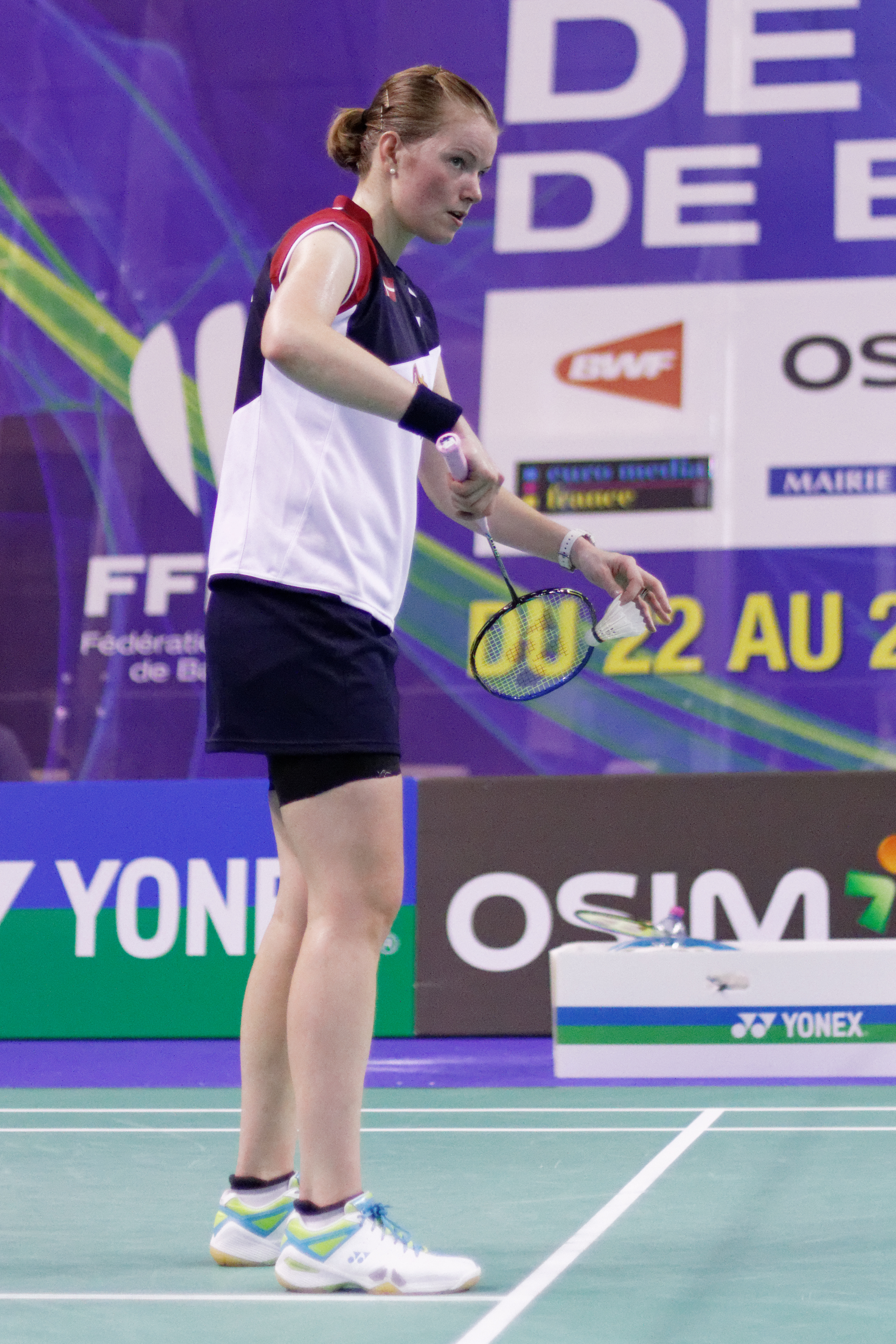 2013 French open. Women's doubles eightfinal. Johanna Goliszewski and Birgit Michels vs Christinna Pedersen and Kamilla Rytter Juhl.